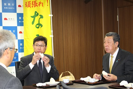 Tsuyoshi Takagi, Minister for Reconstruction, and Tadayoshi Nagashima, Senior Vice-Minister for Reconstruction, ate the Tennotsubu at the Sankaido Building in Minato Ward, Tōkyō Metropolis on December 11, 2015.